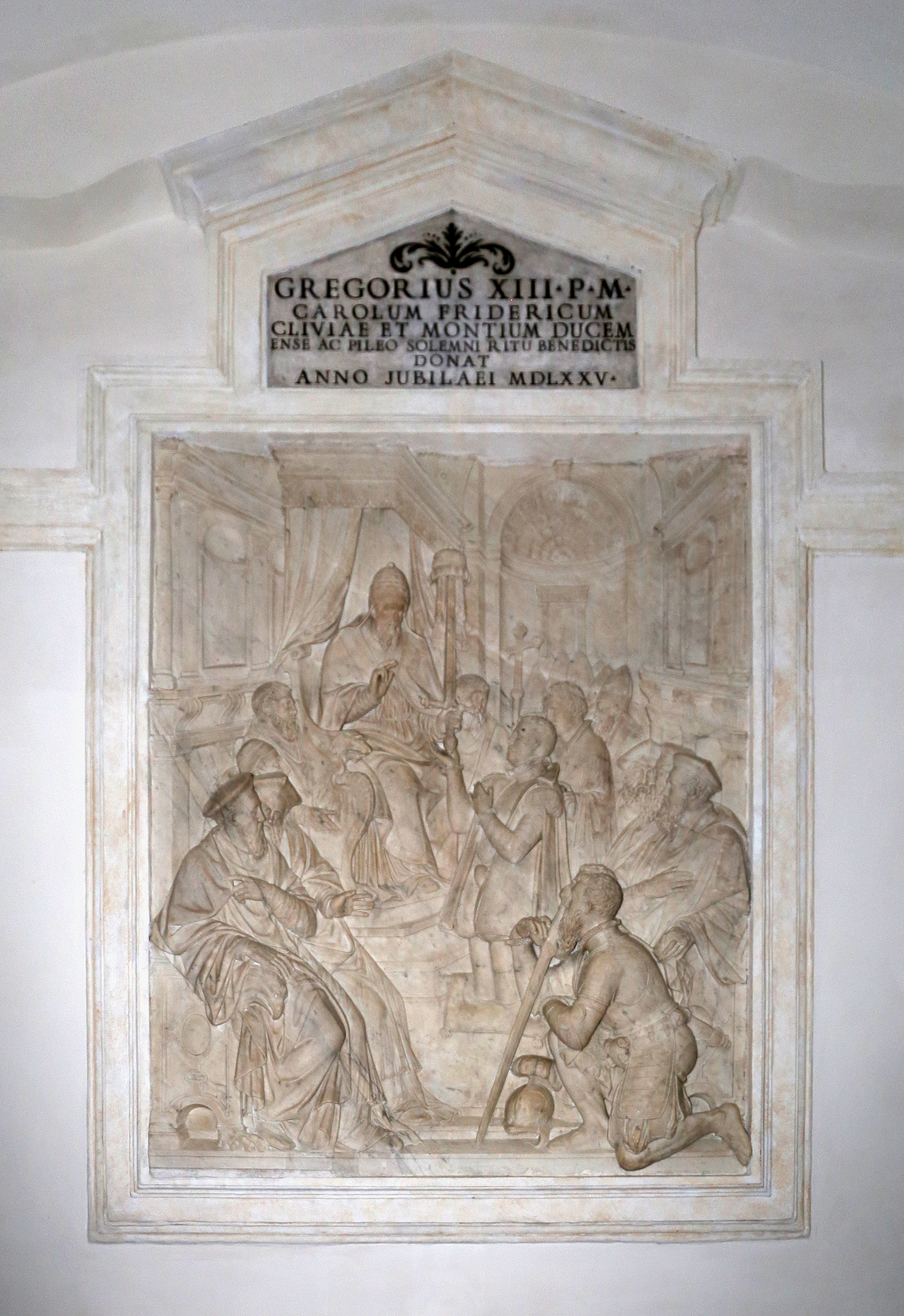 Santa Maria dell'Anima (Rome) - Interior